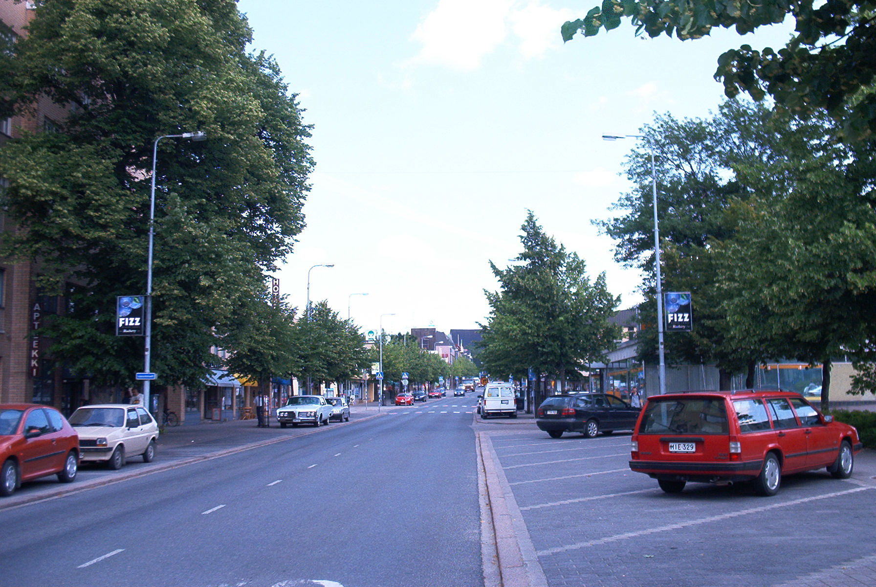 View of Laurinkatu street in Lohja, Finland